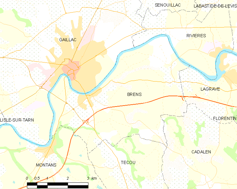 Map of French municipality Brens